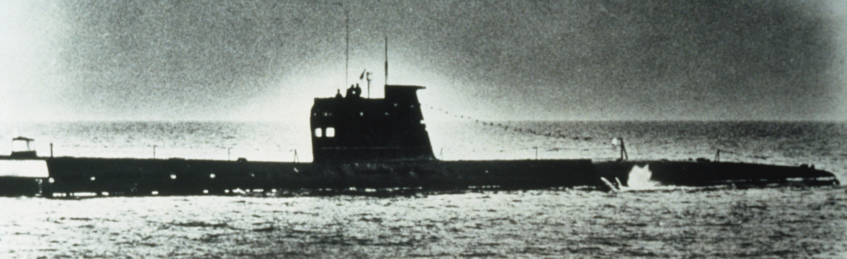 A view of a Libyan Foxtrot Class attack submarine.